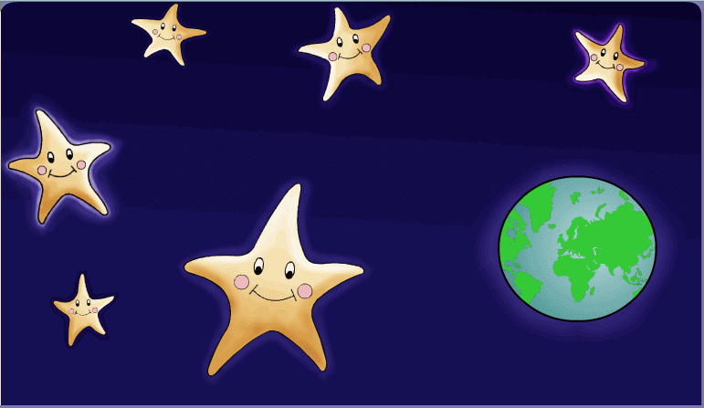 Twinkle Twinkle little star (English) Lullaby from the Lullabies of Europe education project (